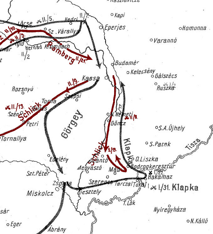 This map shows the successful defensive actions of Klapa in stopping Schlik's crossing of the Tisza river. Then he, together with Görgei forced Schlik to retreat.